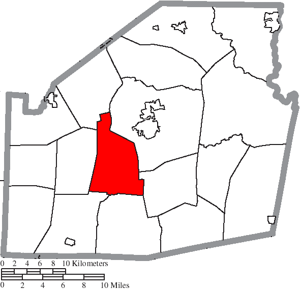 Map of the municipal and township boundaries of Highland County, Ohio, United States, as of the 2000 census, with the location of New Market Township highlighted. Township borders are shown only in unincorporated areas in order to differentiate incorporated and unincorporated areas more clearly.